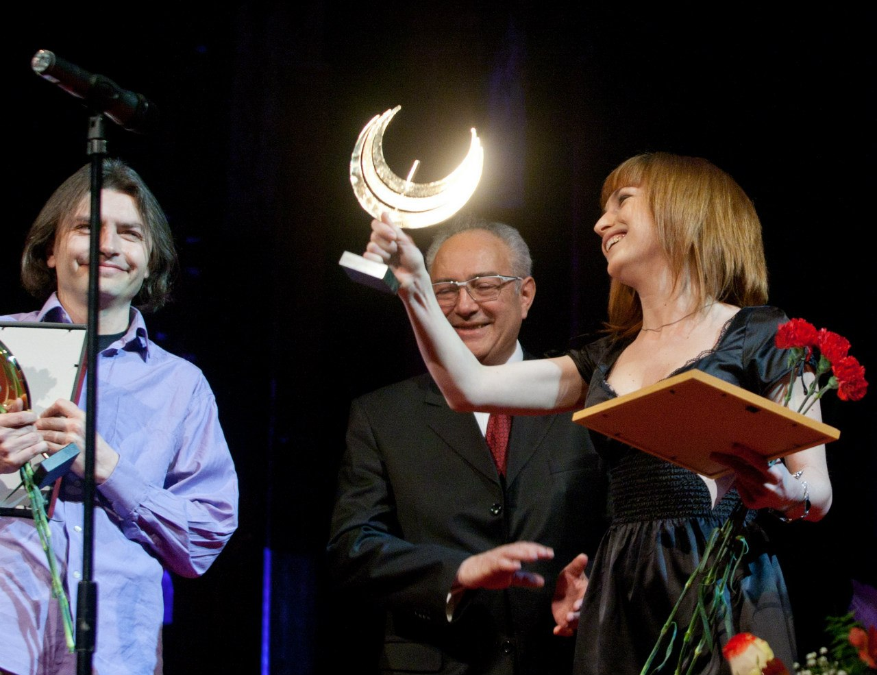 Victoria Bulitko receives her "Best Actress" award for win at the "Kyiv Pectoral - 2011" - ukraine's most prestigious theatre awards.